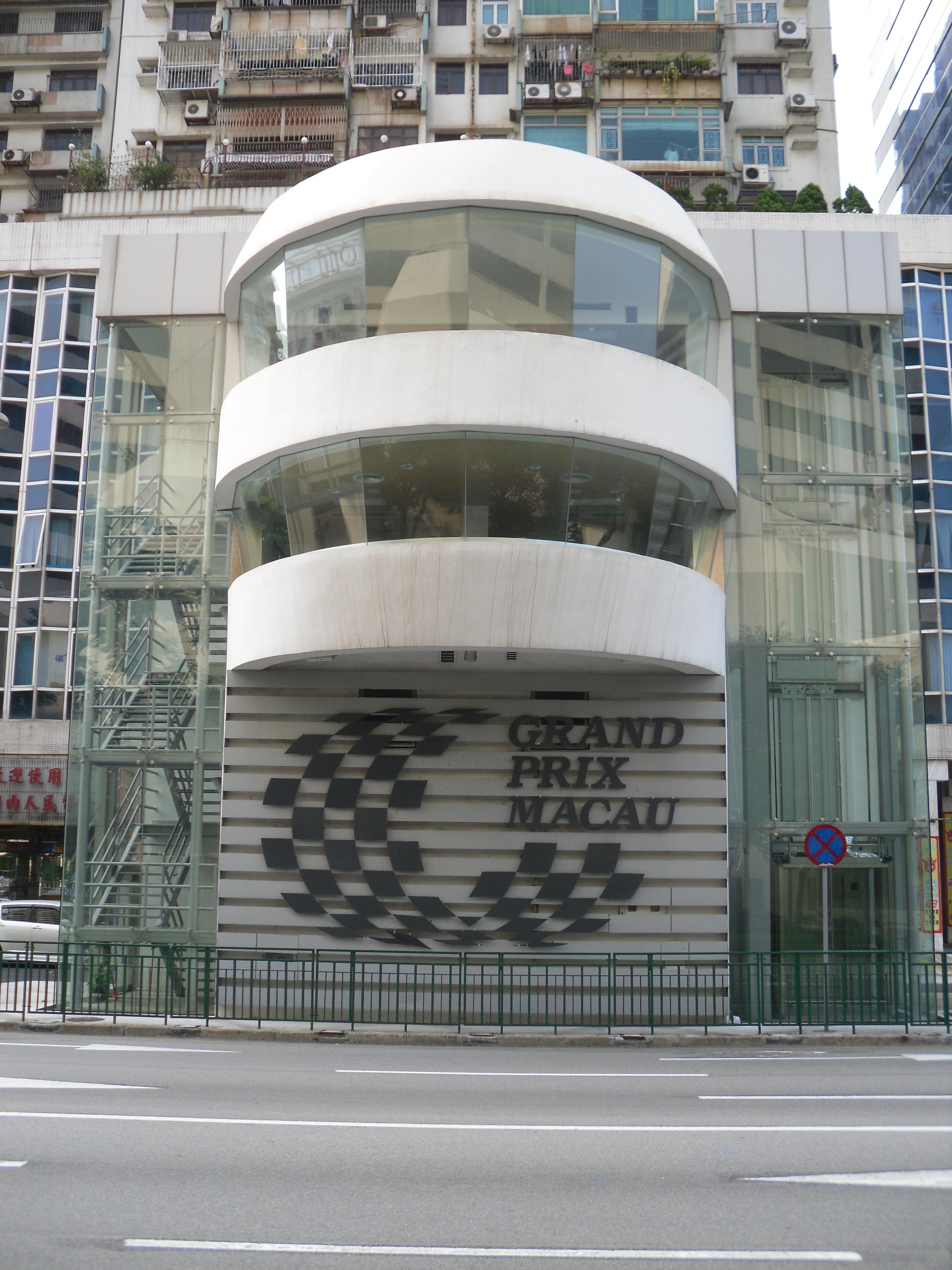 Macao Grand Prix